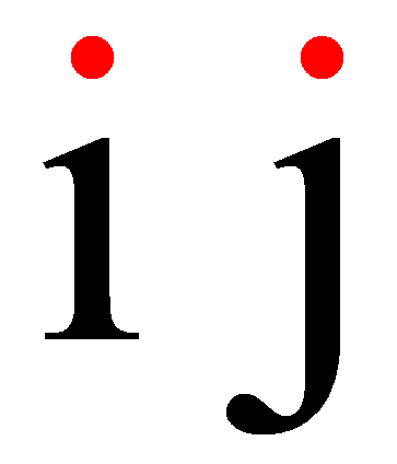 Lowercase i and j in Times New Roman, with tittles highlighted in red